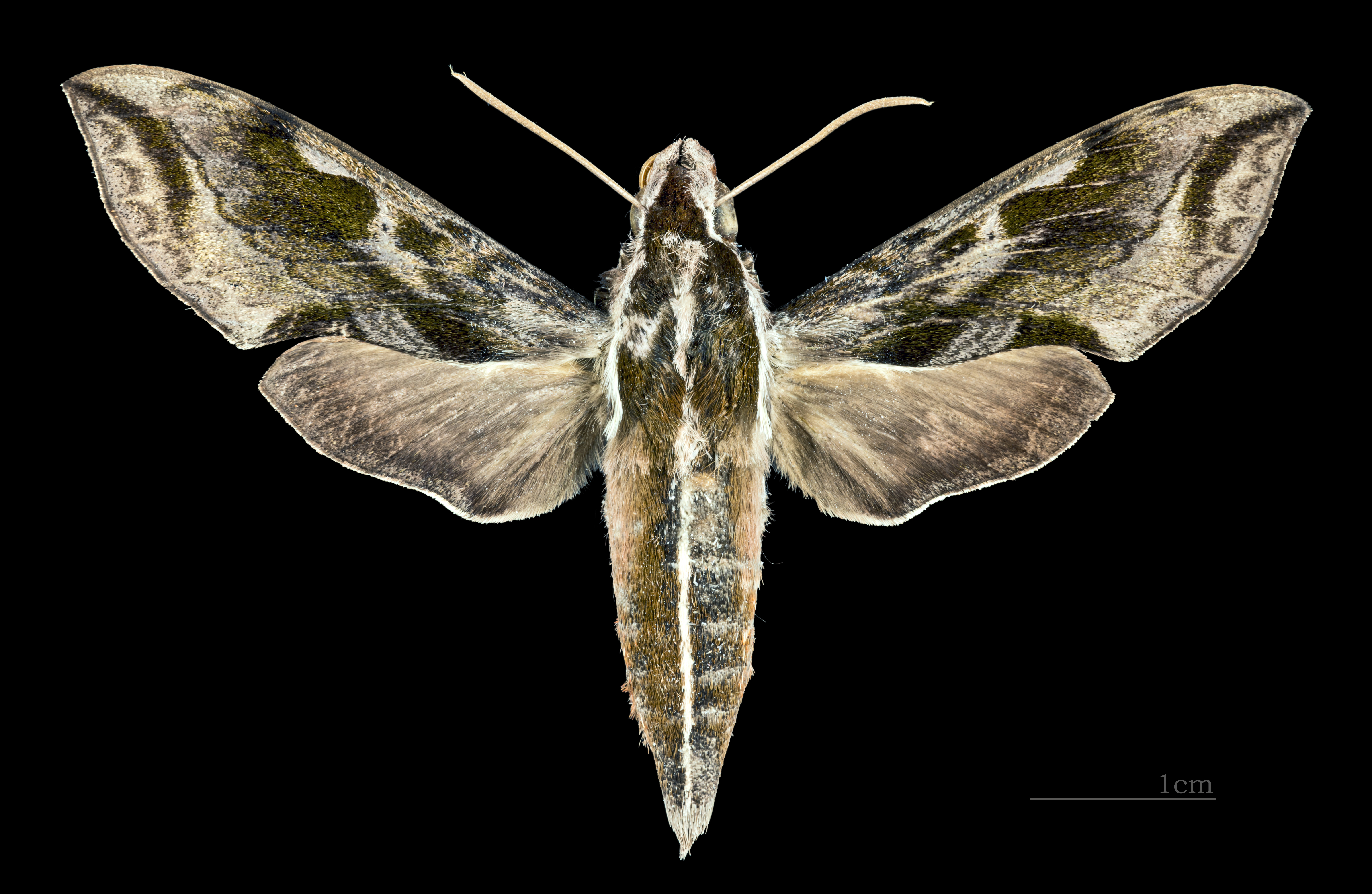 Hippotion brunnea - Dorsal side Collection of the Mathematician Laurent Schwartz